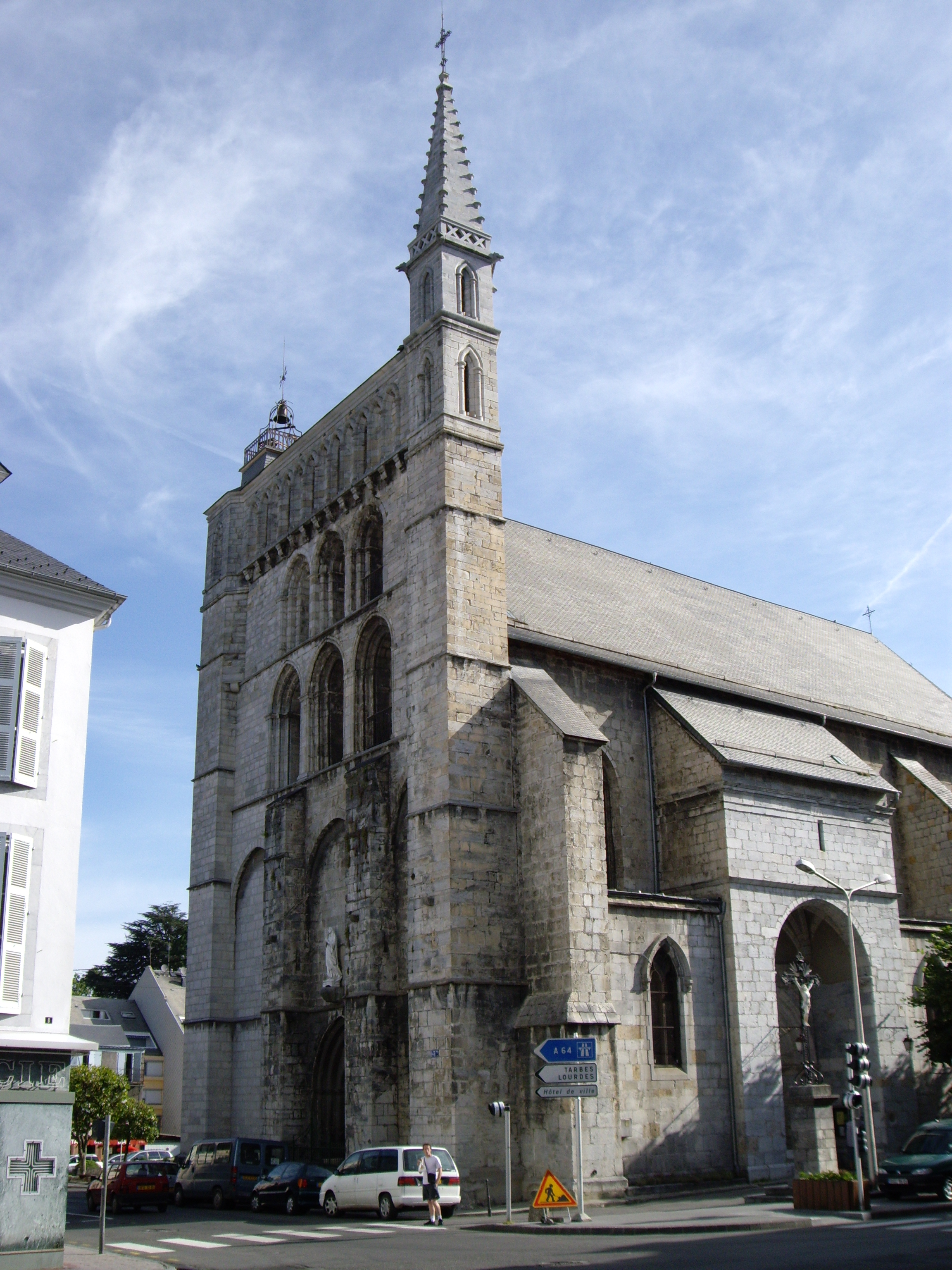 St. Vincent's Church, Bagnères-de-Bigorre, Hautes-Pyrénées, France